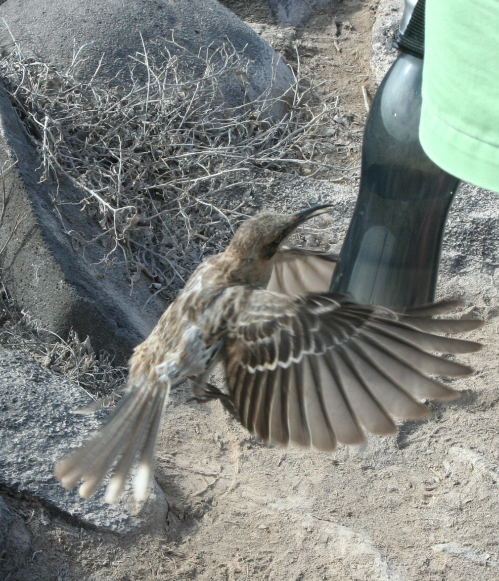 A Galápagos Mockingbird attacking a water bottle in an attempt to get the fresh water inside.